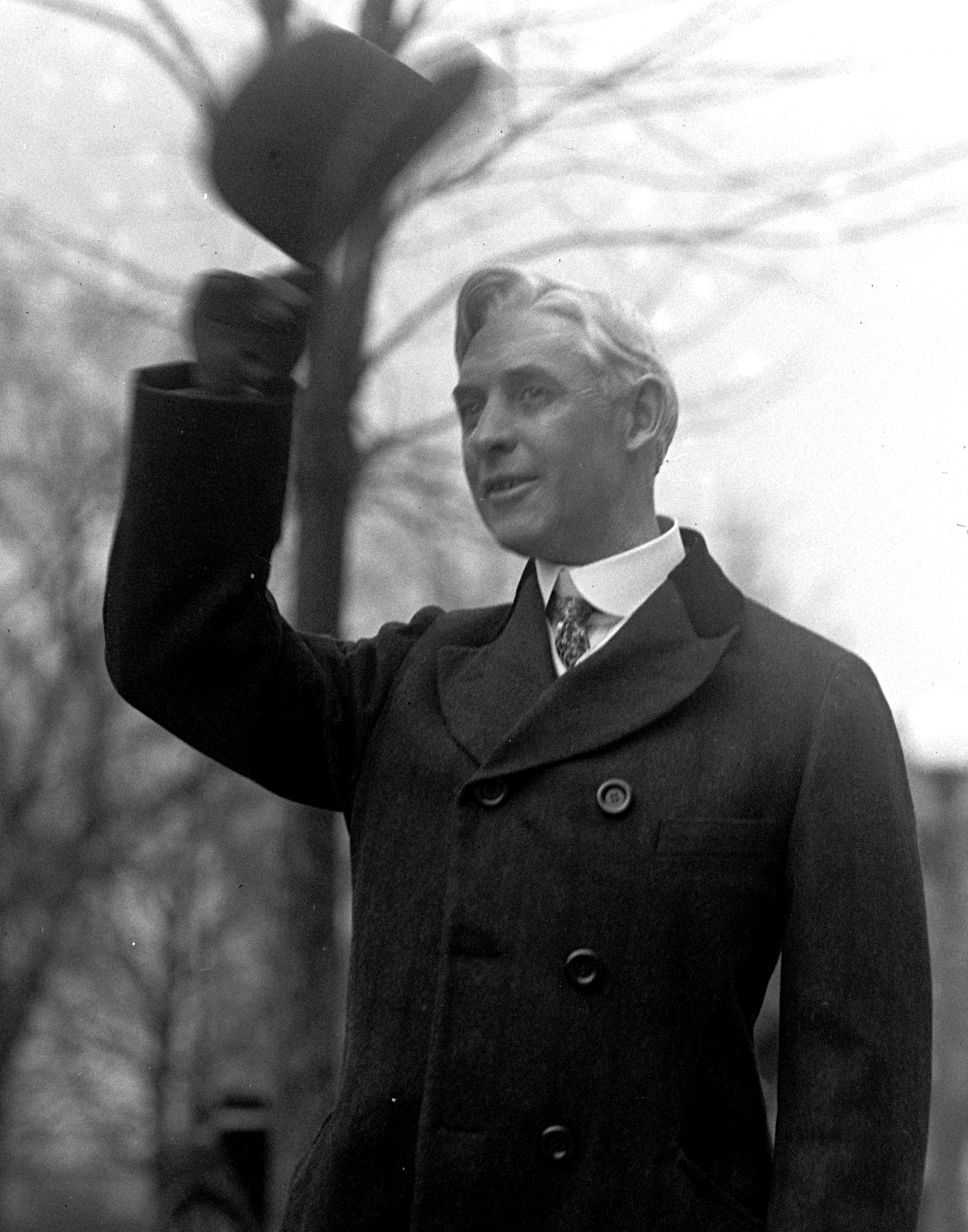 William Patterson Borland, US Representative from Missouri